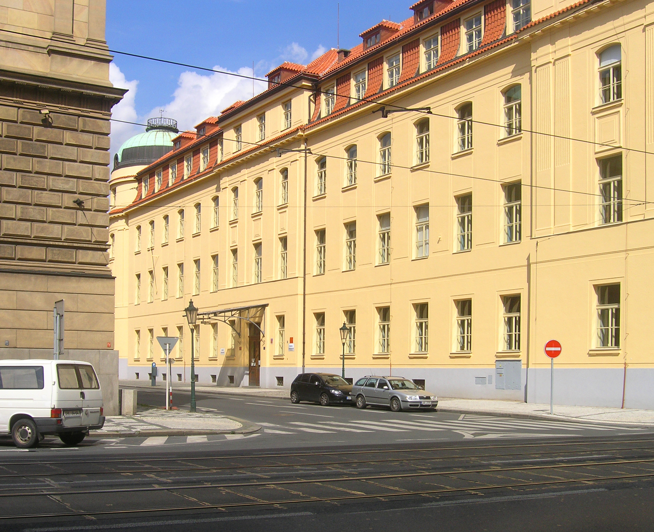 Prague Conservatory at Na Rejdišti street in Old Town, Prague